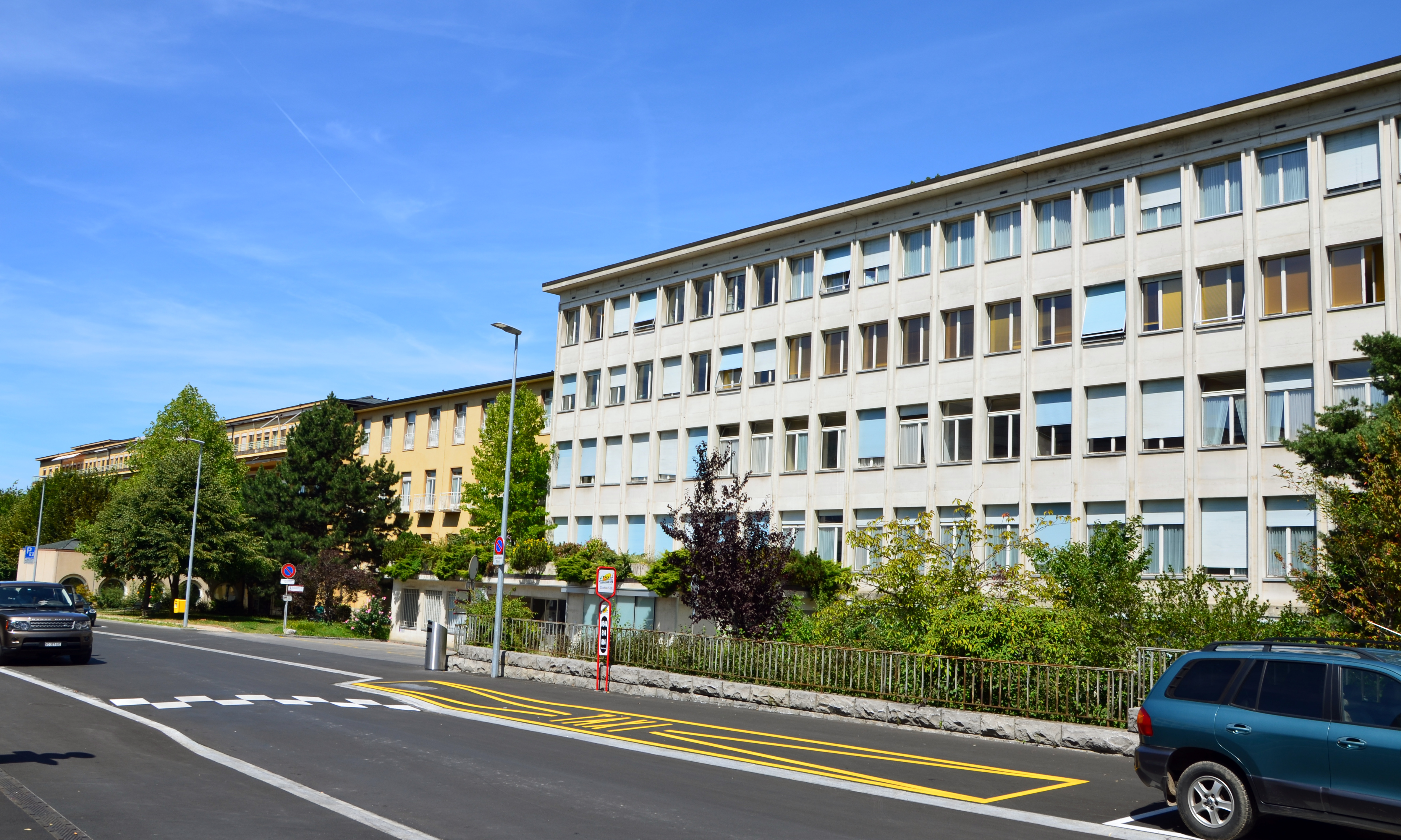 L'hôpital Nestlé, bâtiment faisant partie du Centre hospitalier universitaire vaudois (CHUV) de Lausanne (Suisse).